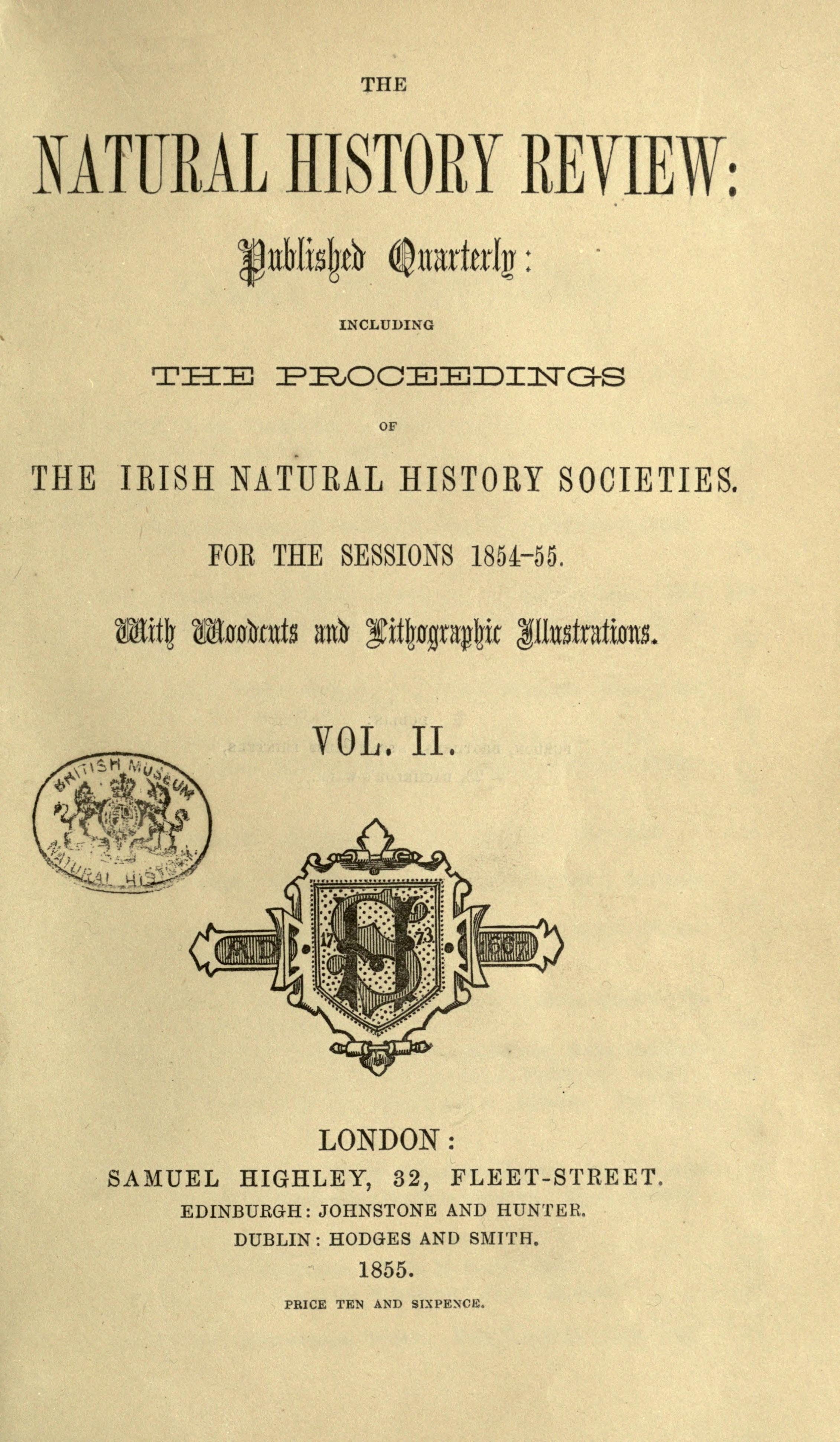 Cover of Natural History Review